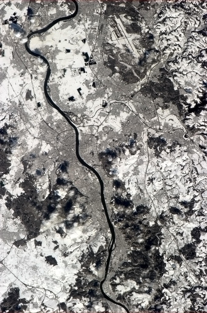 "Bonn, capital of pre-unification West Germany, neatly clear in the March snow along the dark waters of the Rhine." Caption by astronaut Chris Hadfield Chris Hadfield on board the International Space Station. ISS Crew Earth Observations: ISS034-E-067745IdentificationMissionISS034 (Expedition 34)RollEFrame067745Country or Geographic NameGERMANYCameraCamera Focal Length400 mmCameraNIKON D3SQualityPercentage of Cloud Cover0-10%Nadir What is Nadir?Date2013-03-13Time10:02:36